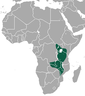 Moonshine Shrew (Crocidura luna) range